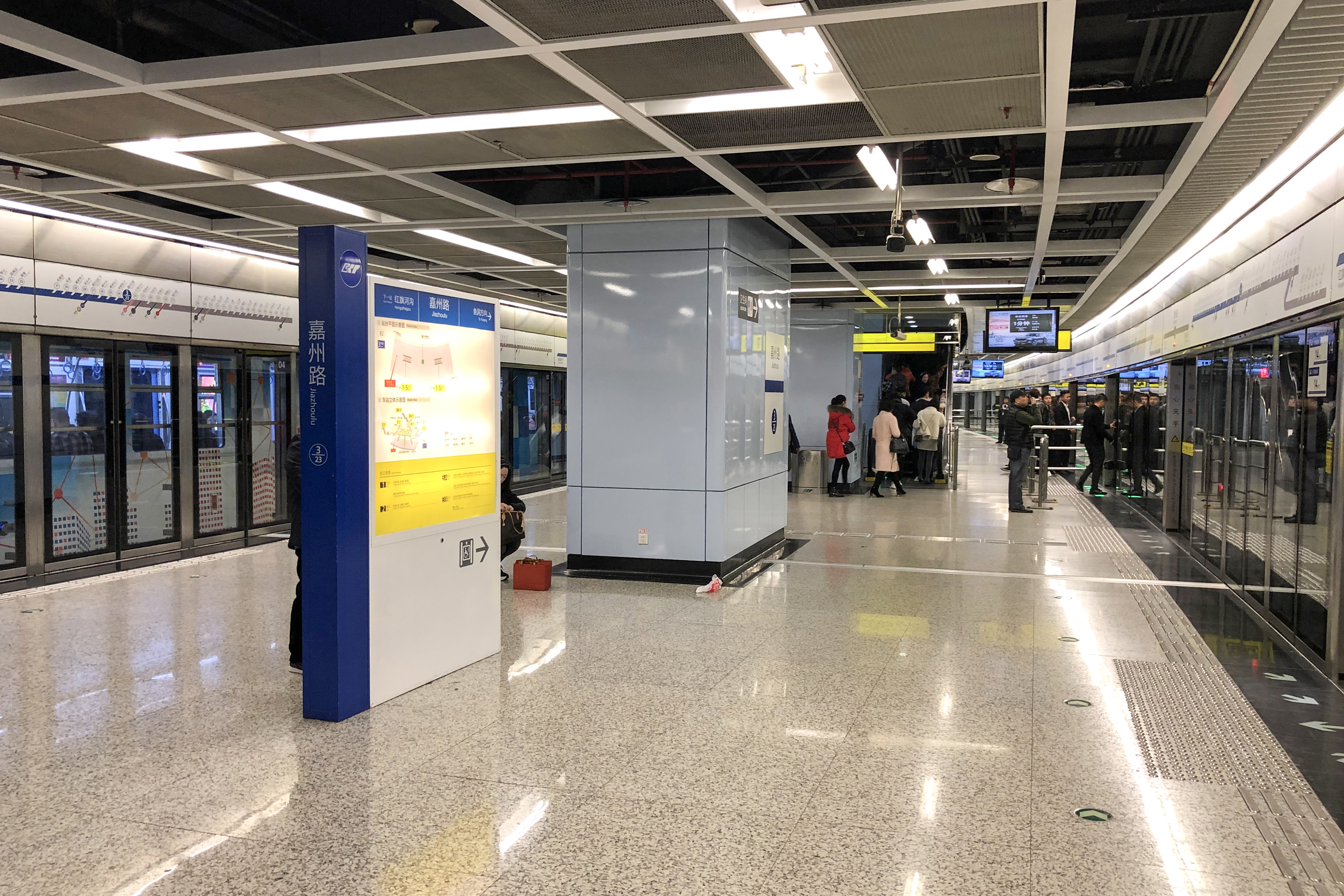 California Road Station, interchange station for Line 4 (later).